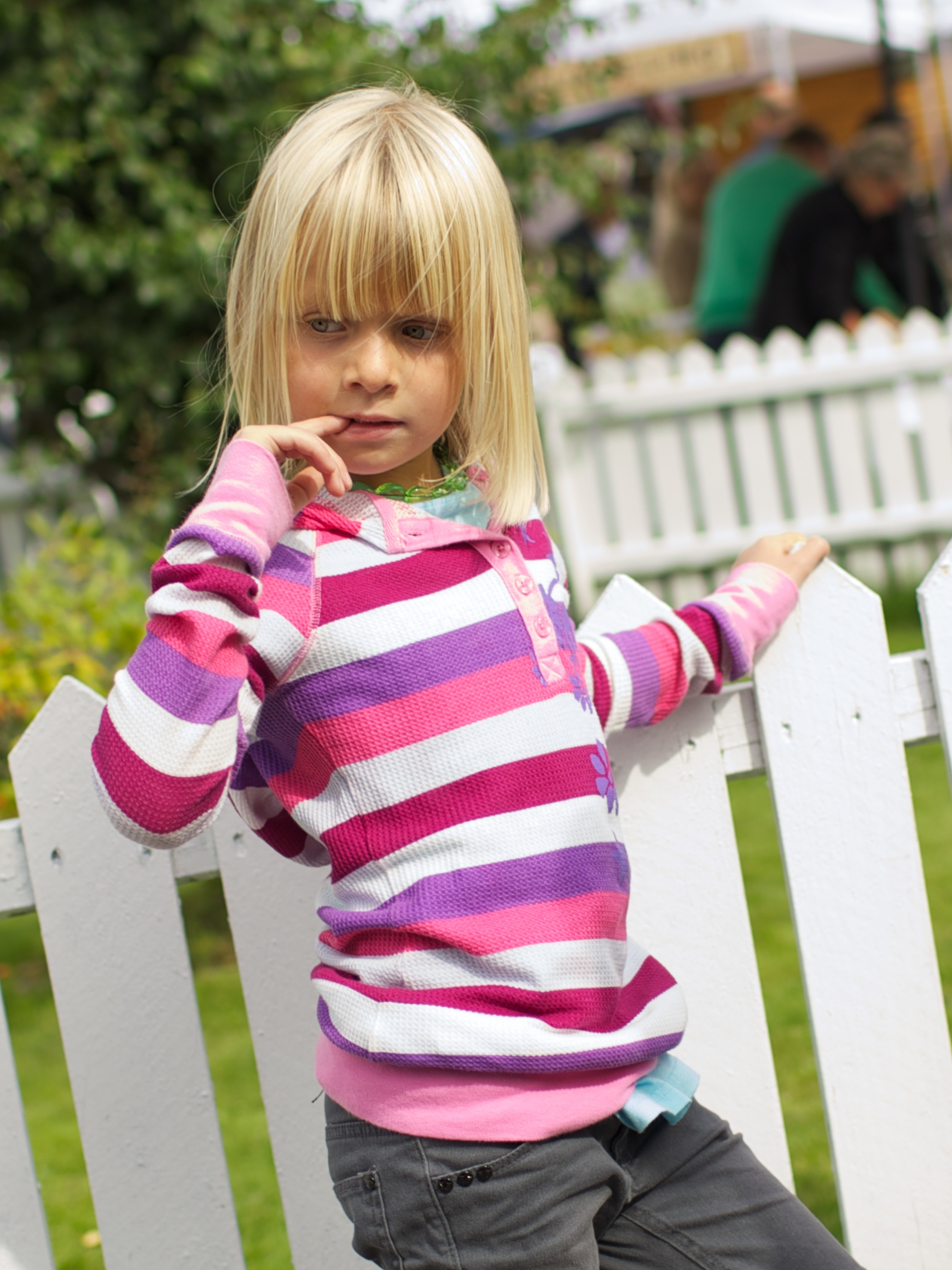 Girl by the fence